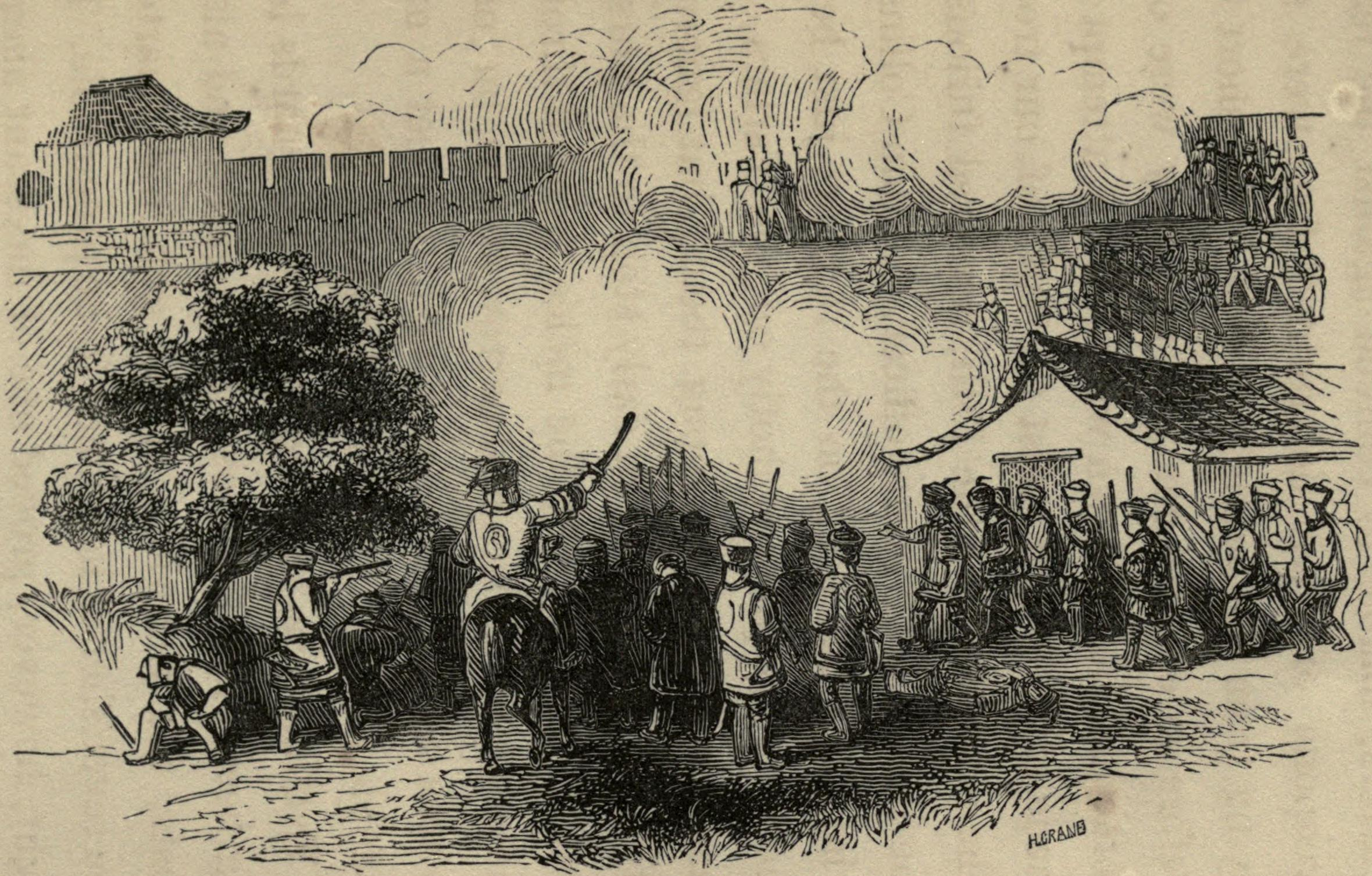 Rallying of the Tartars at Chin-keang-foo.